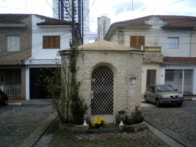 Angelo Marinelli Street, Tatuapé, São Paulo, Brazil